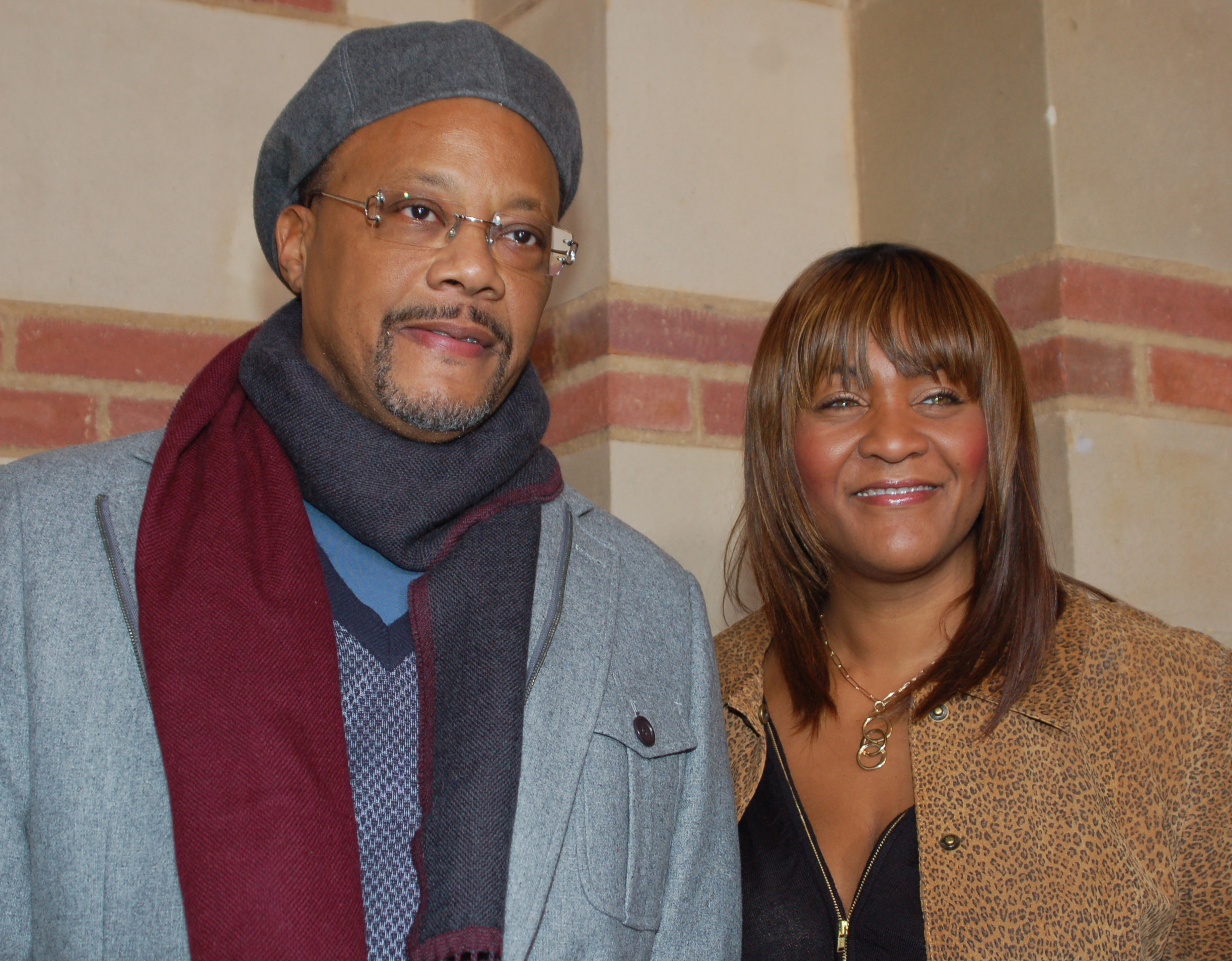 Greg Mathis with his wife Linda at a performance of The Hot Chocolate Nutcracker in December 2010.